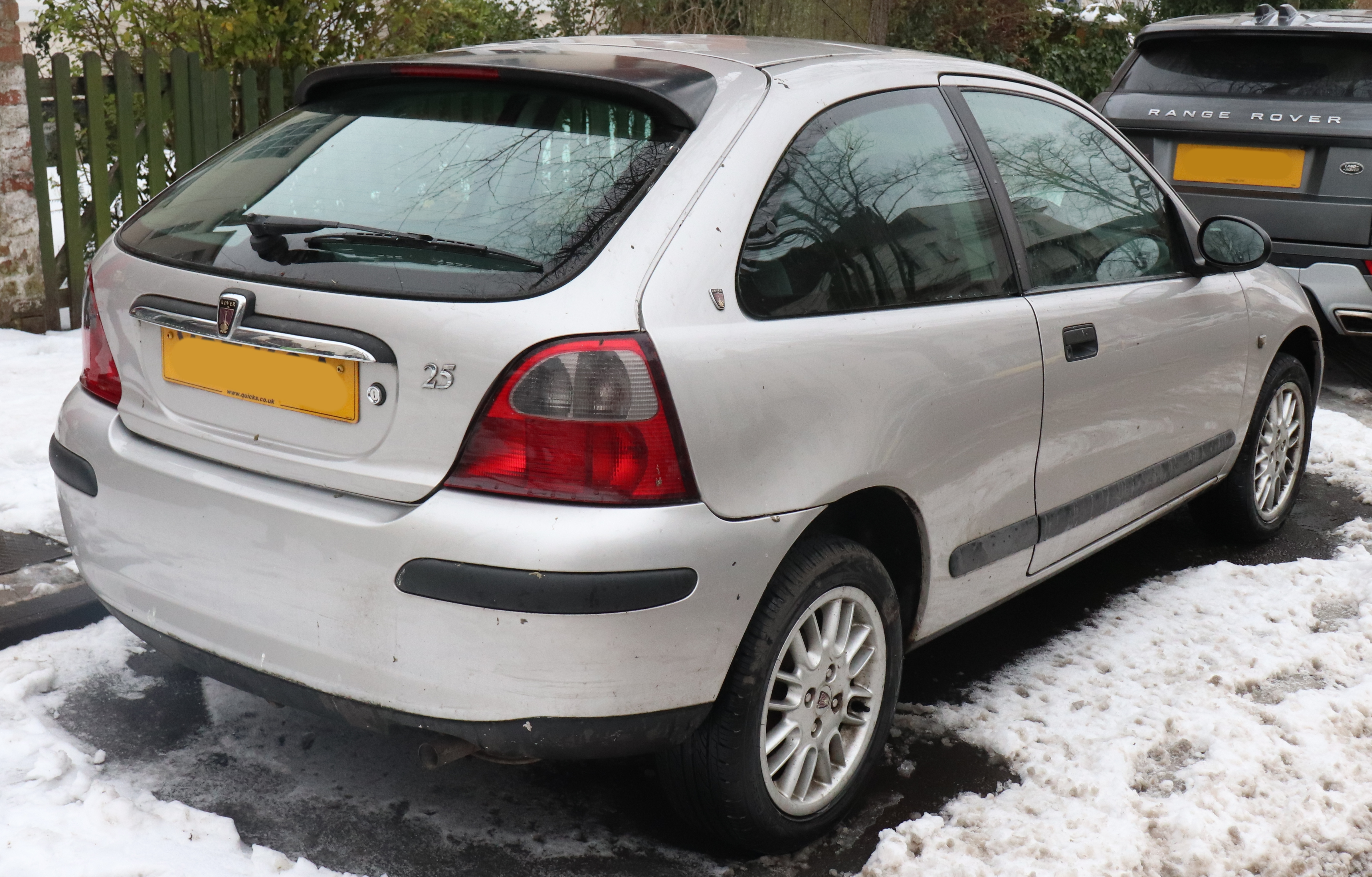 2001 Rover 25 Advantage S 1.4 Rear Taken in Leamington Spa